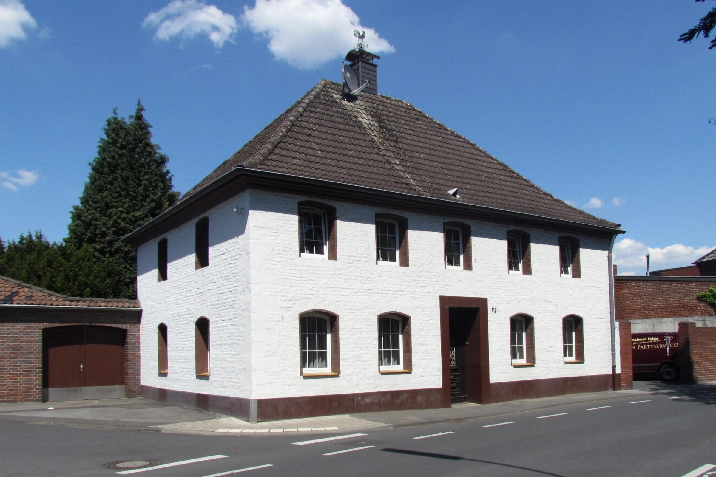 This is a photograph of an architectural monument.It is on the list of cultural monuments of Korschenbroich